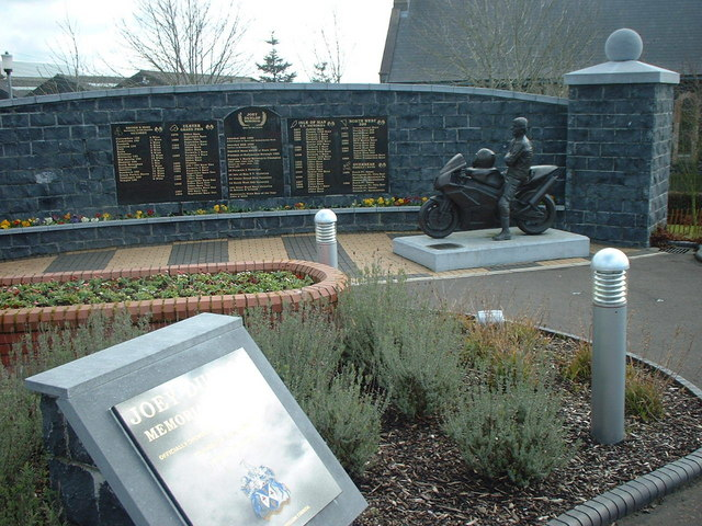 Joey Dunlop Memorial in Ballymoney Fitting tribute to the record Isle of Man TT races winner.